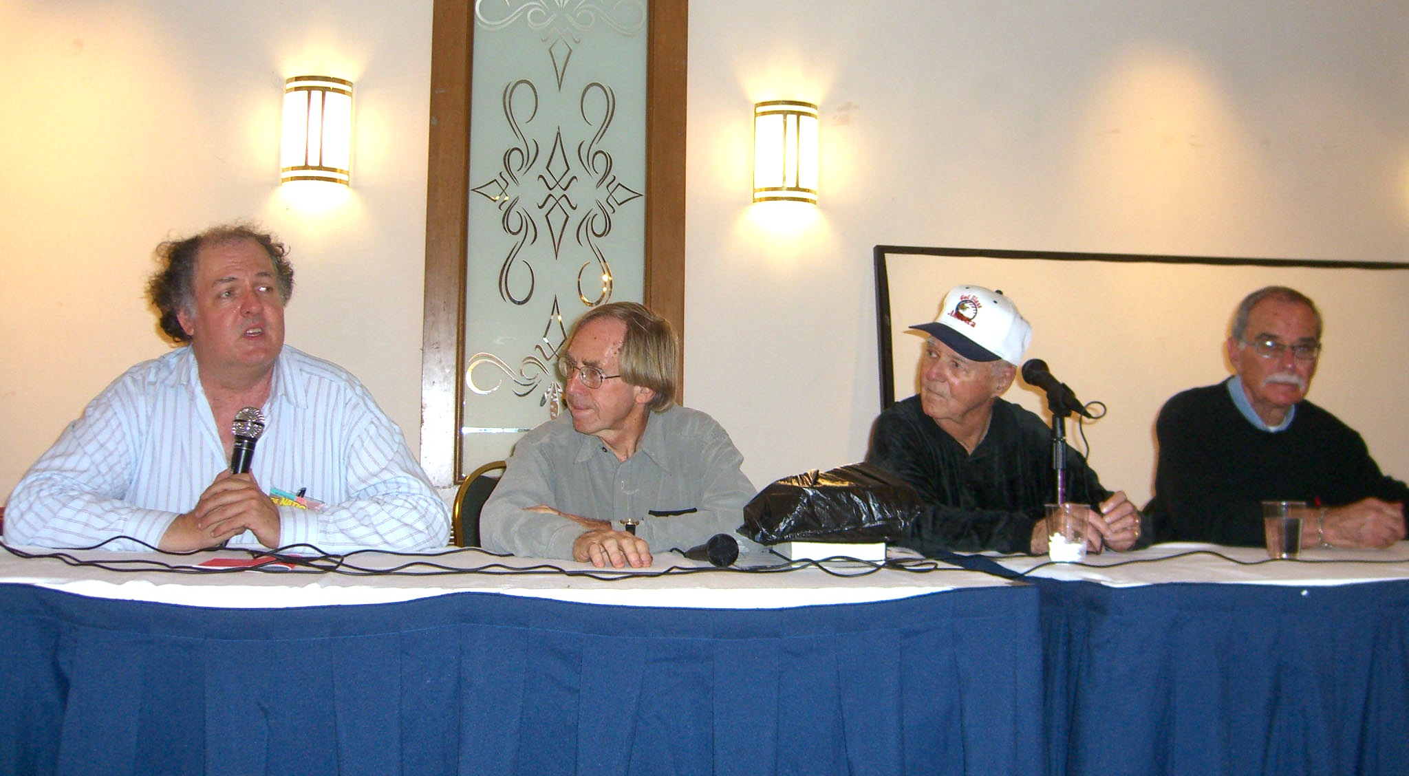 Comic book creators Mark Evanier, Roy Thomas, Joe Sinnott and Stan Goldberg speaking on a panel on Jack Kirby at the November 2008 Big Apple Convention in Manhattan.